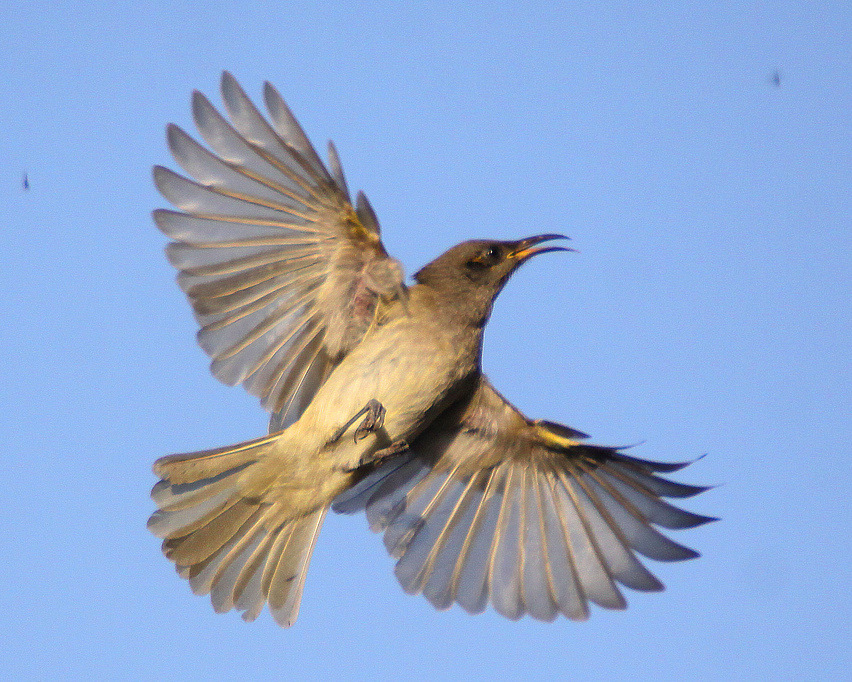 Brown Honeyeater hawking for insects. Kooragang Island, Newcastle, NSW Australia